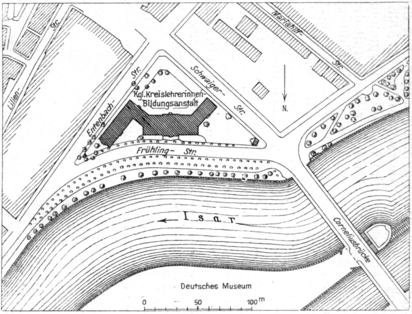 Groundplan of building